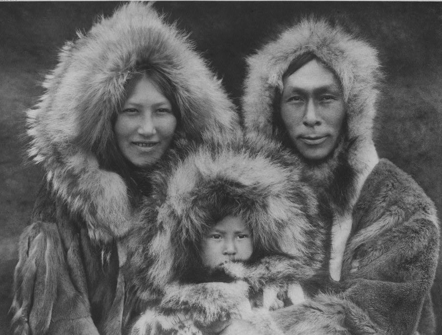 Inuit family, 1928.